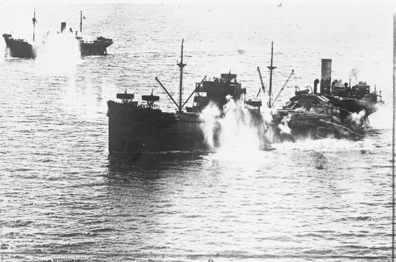 Royal Air Force Operations in Malta, Gibraltar and the Mediterranean, 1940-1945. Enemy cargo vessels under attack by cannon fire from Bristol Beaufighters of No. 201 Group in the eastern Mediterranean.